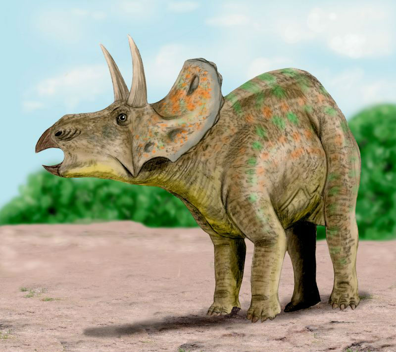 Diceratus/Nedoceratops hatcheri is a ceratopsian from the Late Cretaceous of North America, pencil drawing, digital coloring